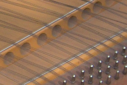 Strings, bridge, tuning pegs on folk cimbalom